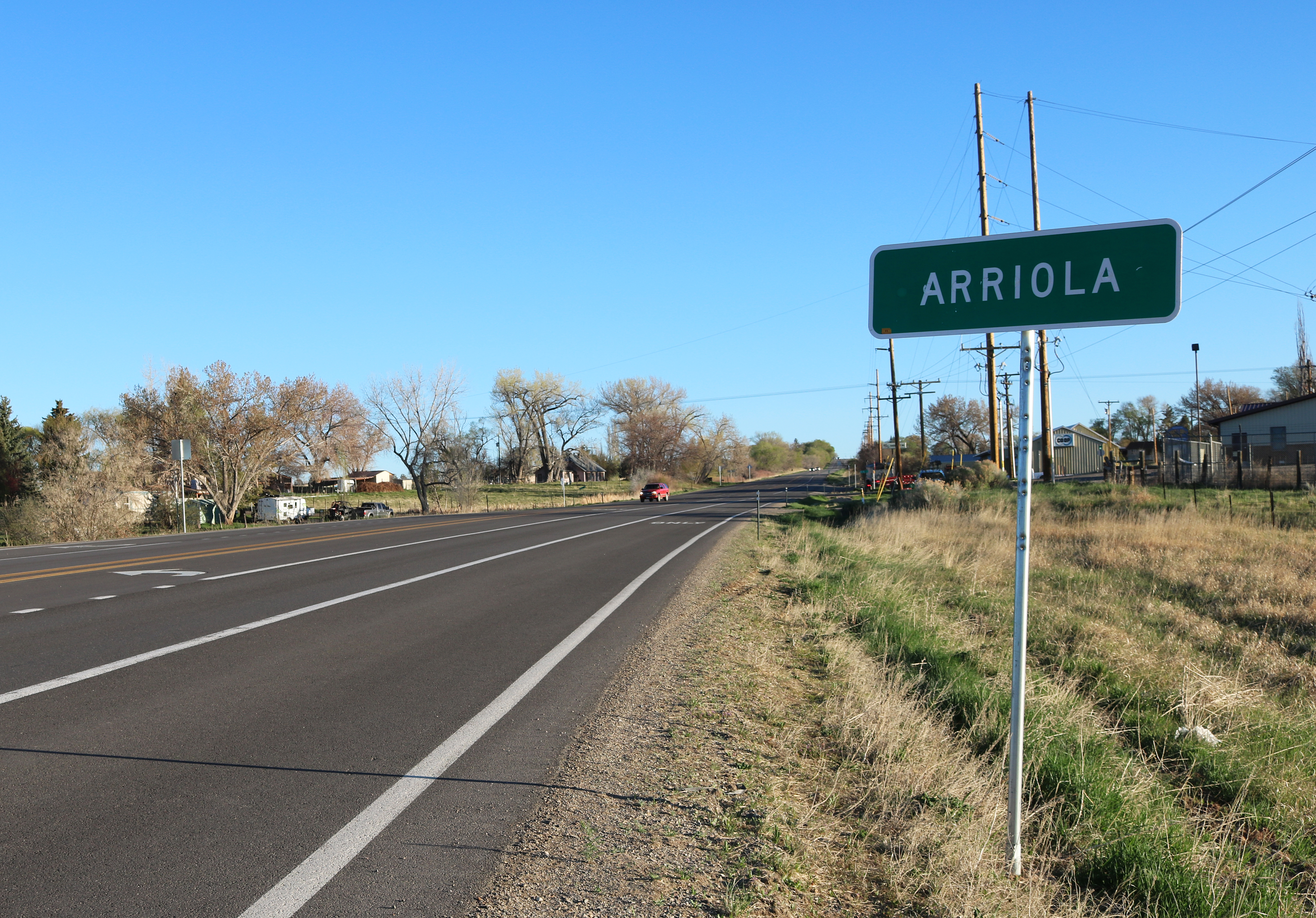 Arriola, Colorado, looking north along U.S. Route 491.